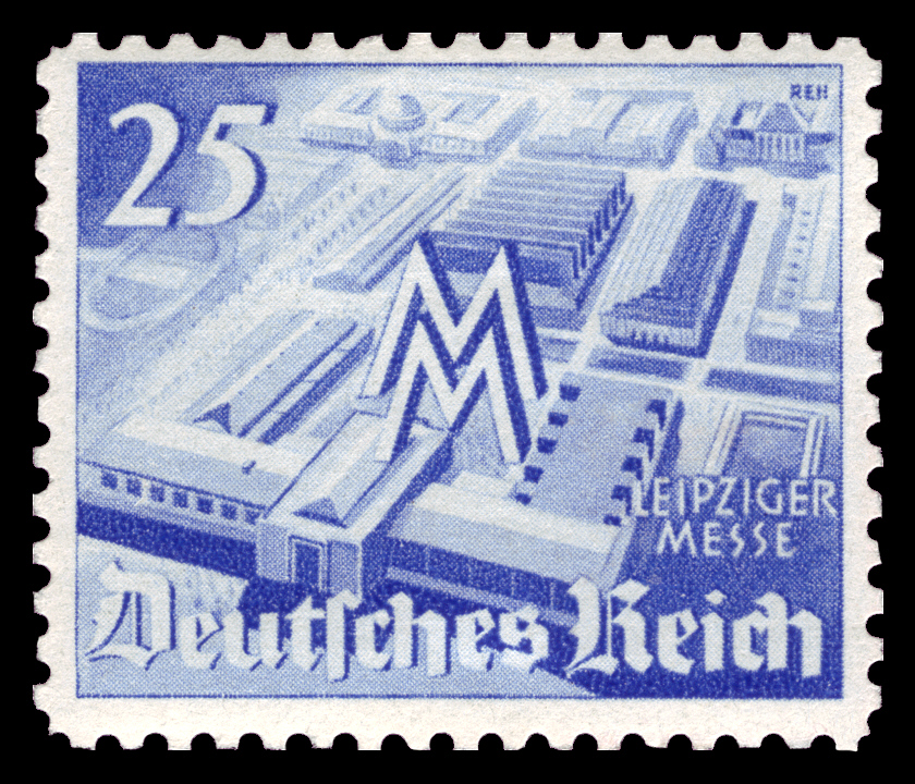 Leipzig Trade Fair (spring) Ausgabepreis: 25 Pfennig First Day of Issue / Erstausgabetag: 3. März 1940 Michel-Katalog-Nr: 742 (Deutsches Reich)